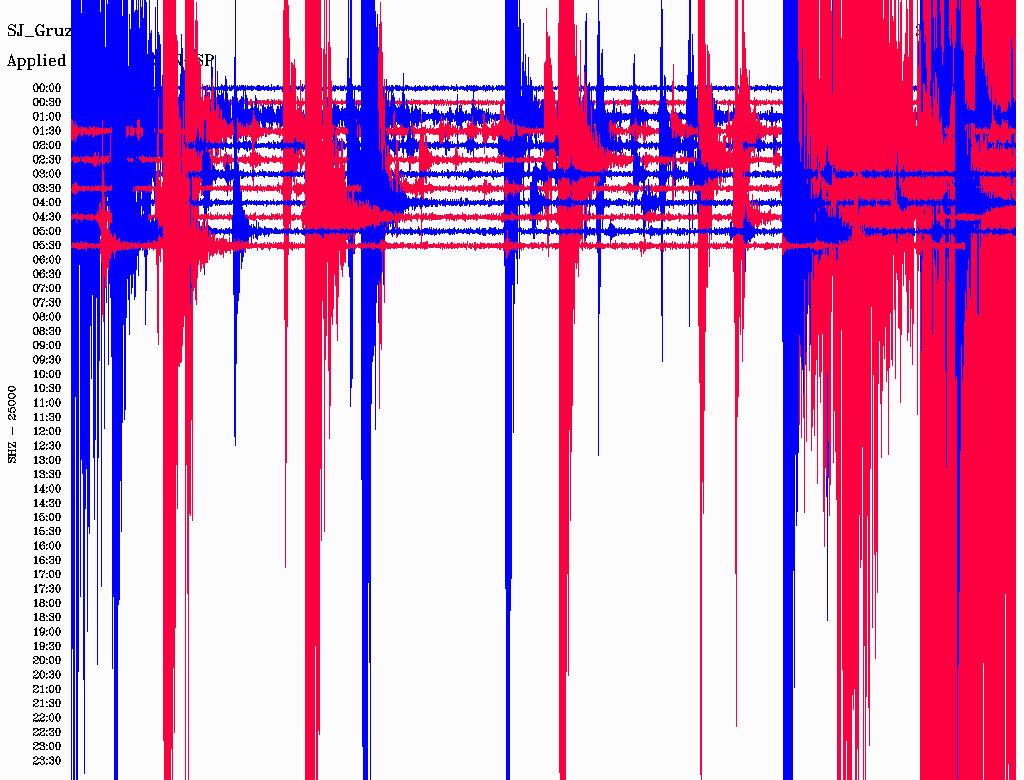 Seismogram of the 2010 Serbia earthquake